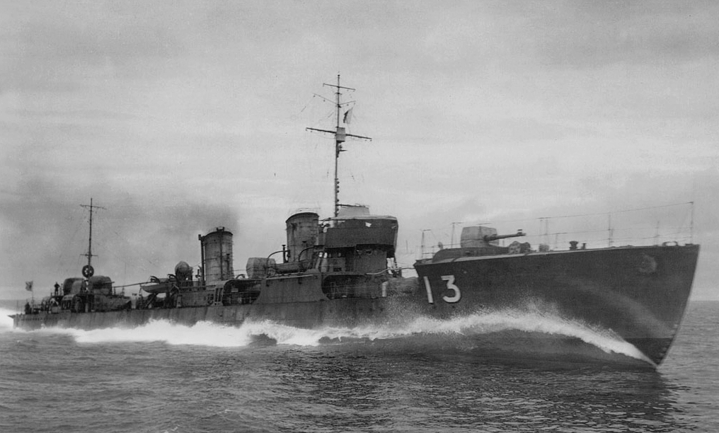 Imperial Japanese Navy destroyer Hayate on trials, circa 1925.